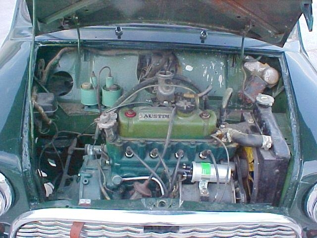 An 848 cc A-Series engine in a 1963 Austin Mini. Notice the placement of the radiator.